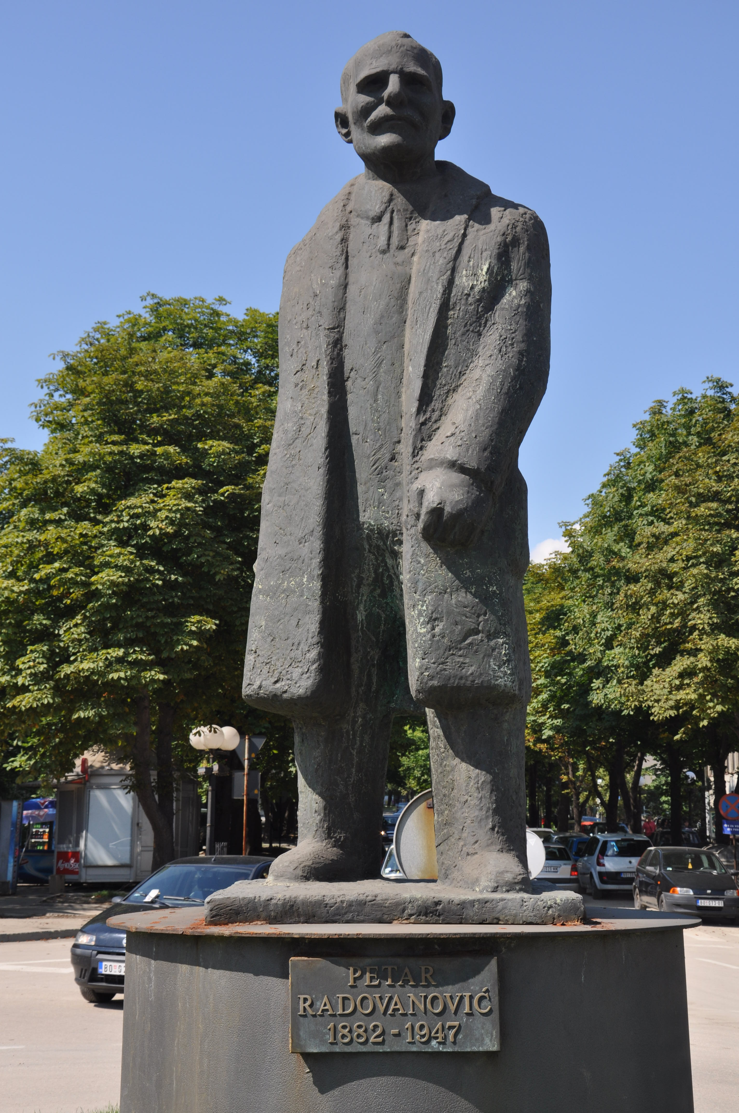 Monument of Petar Radovanovic in city Bor. Српски (ћирилица): Споменик Петру Радовановићу у Бору